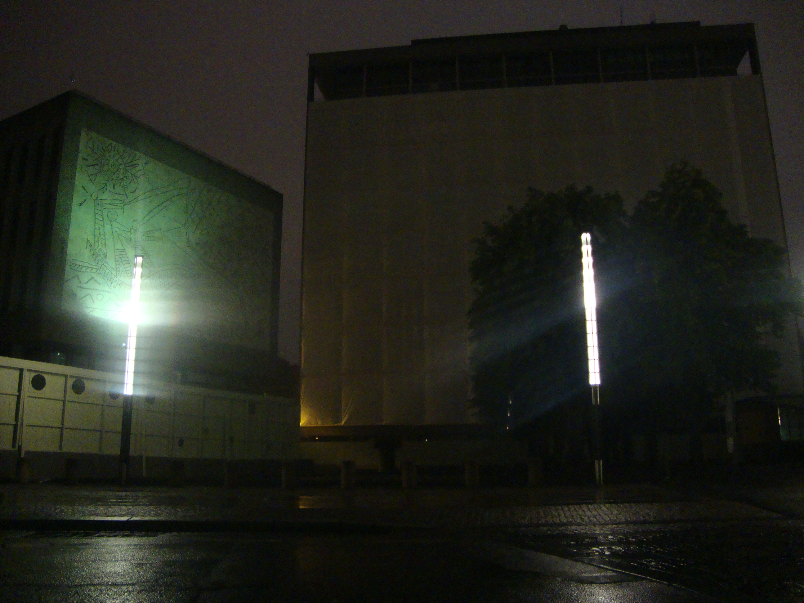 The Regjeringskvartalet on July 8th, 2012 at night नेपाल भाषा: Het Regjeringskvartalet in Oslo 's nachts, op 8 juli 2012